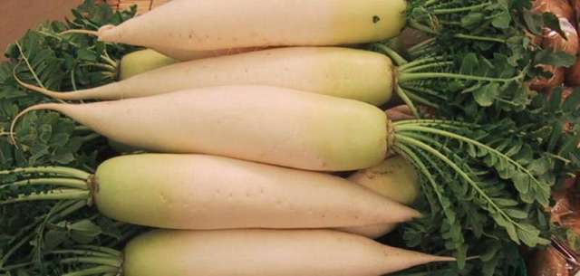 Picture of a pile of Daikon (giant white radish) in a supermarket in Japan.